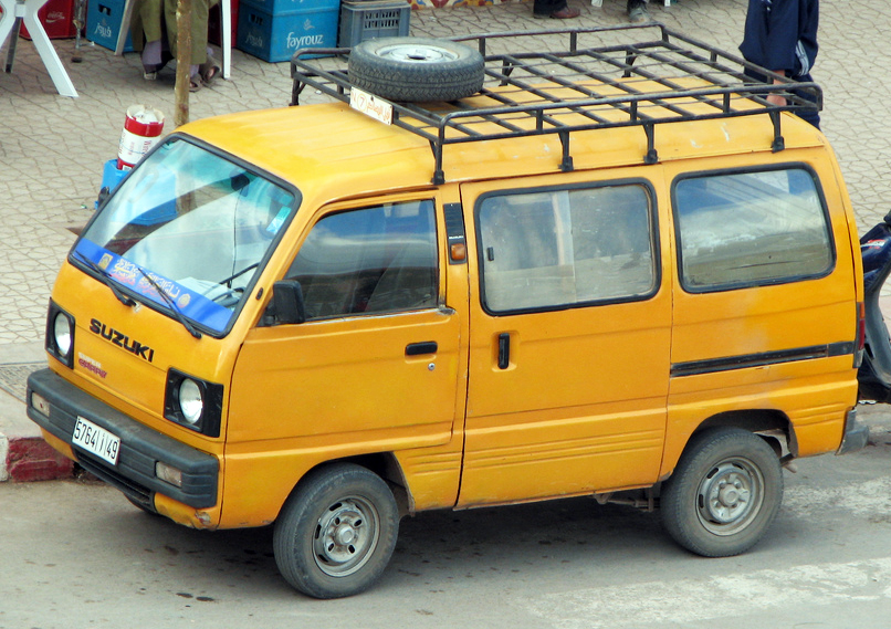 Suzuki SK410 Super Carry used as a minicab in Azilal, Morocco